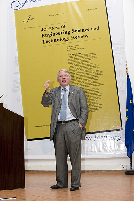 Snapshot from Dimitri Nanopoulos’ lecture on 'LHC-logy'.